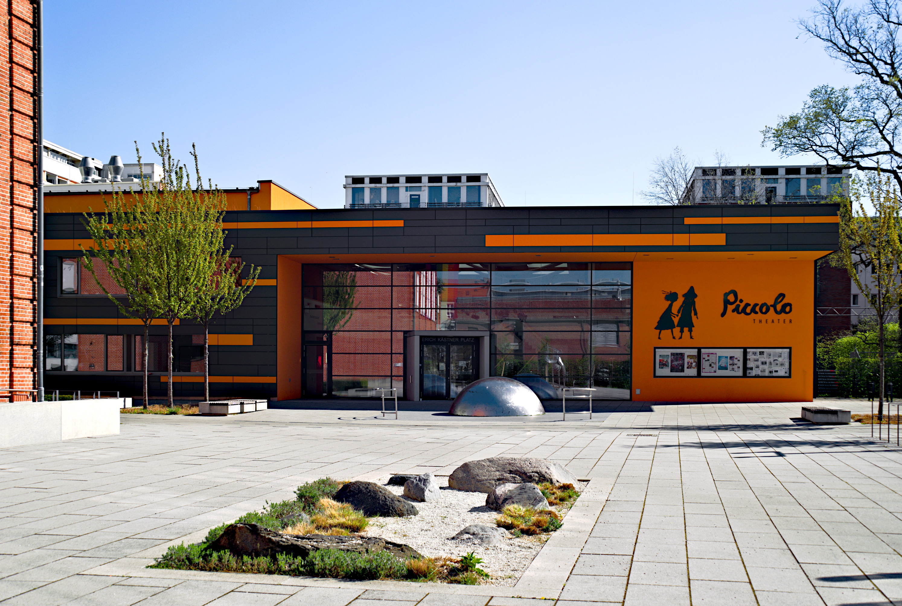 Piccolo-Theater, Erich-Kästner-Platz 2 in Cottbus-Mitte.